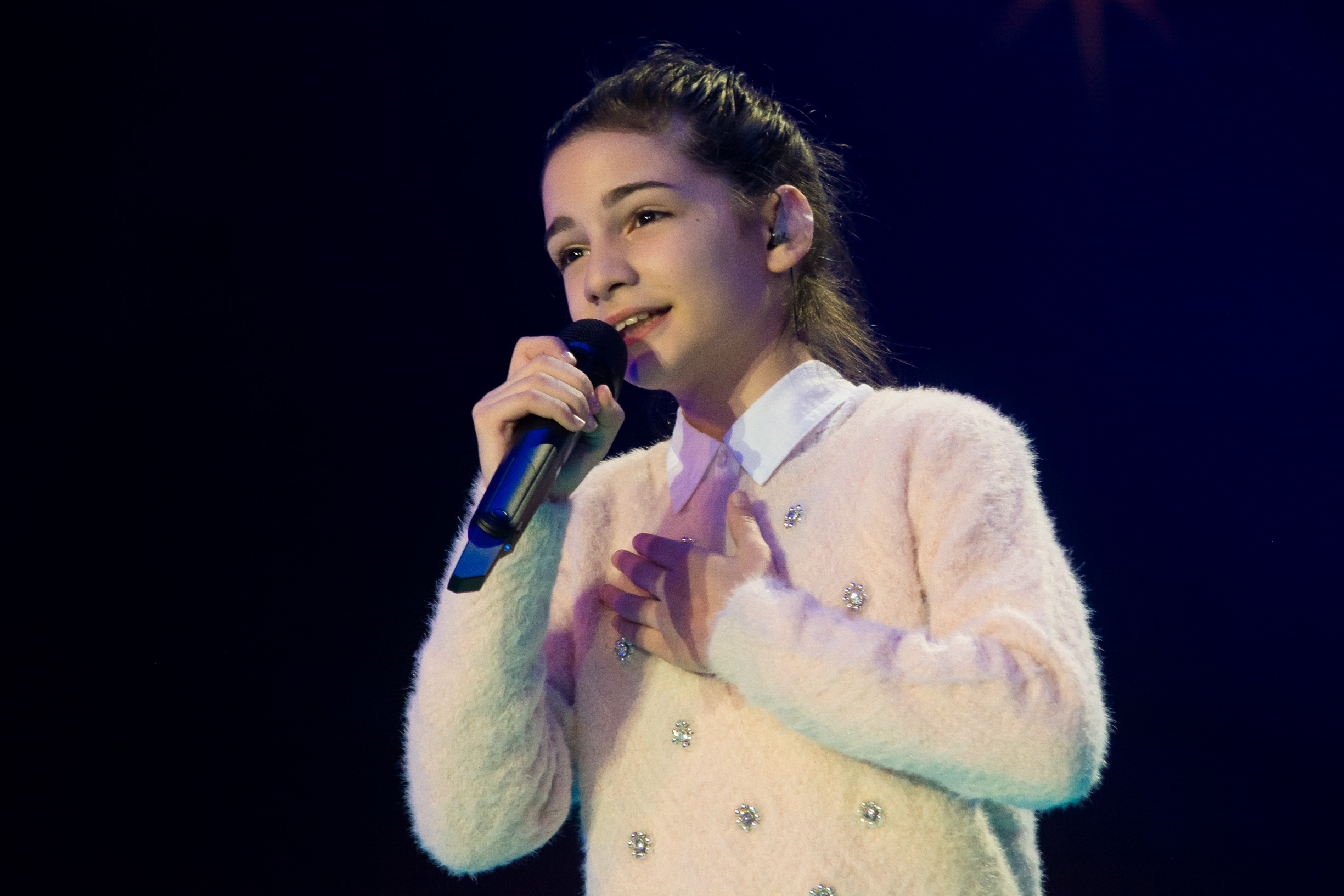 JESC 2016 participant: Mariam Mamadashvili (Georgia)